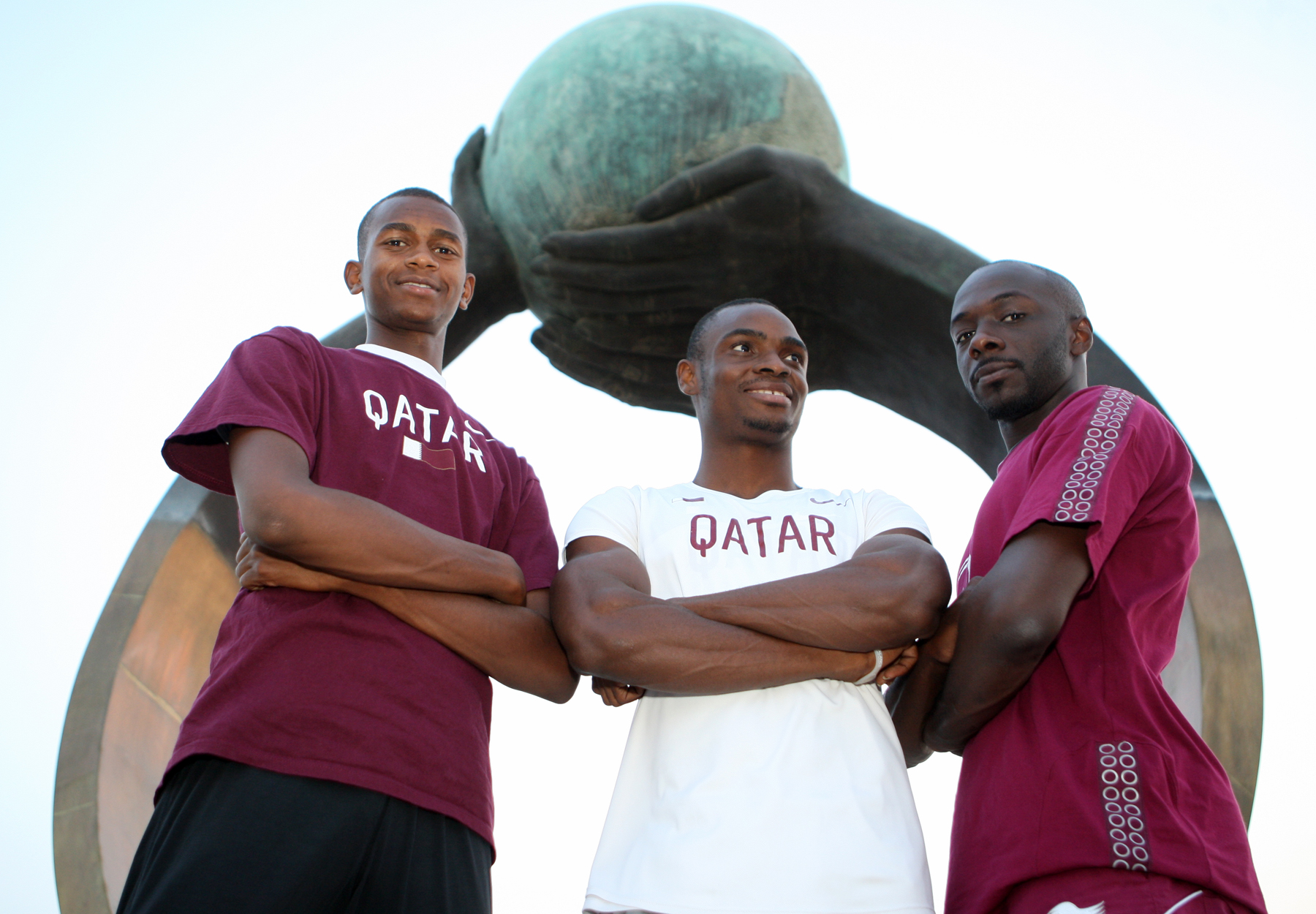 From left, Qatari high jumper :Mutaz Essa Barshim, sprinter Femi Seun Ogunode and high jumper Rashid Ahmed Al-Mannai at the ASPIRE Academy in Doha. Pic by Mohan